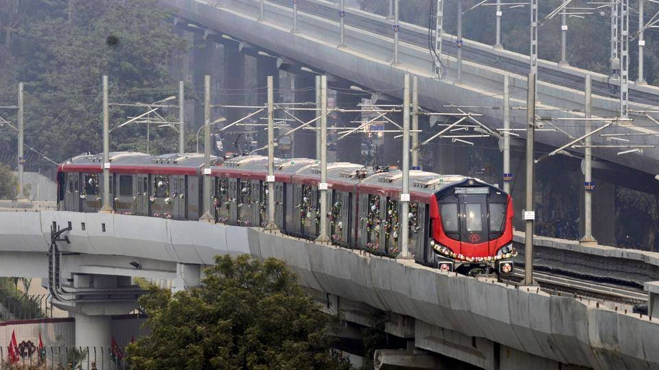 Image of Lucknow Metro running over an elevated track.